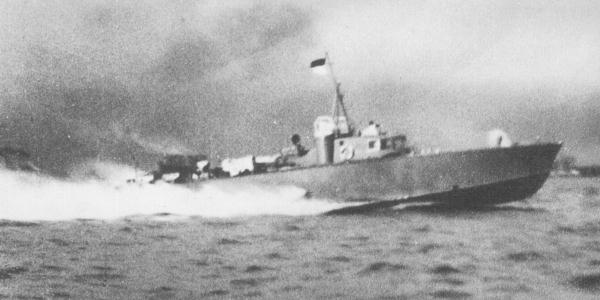 Japanese No.2 Motor Torpedo Boat (type-1) off Tsurumi (at Tokyo Bay) on trial.